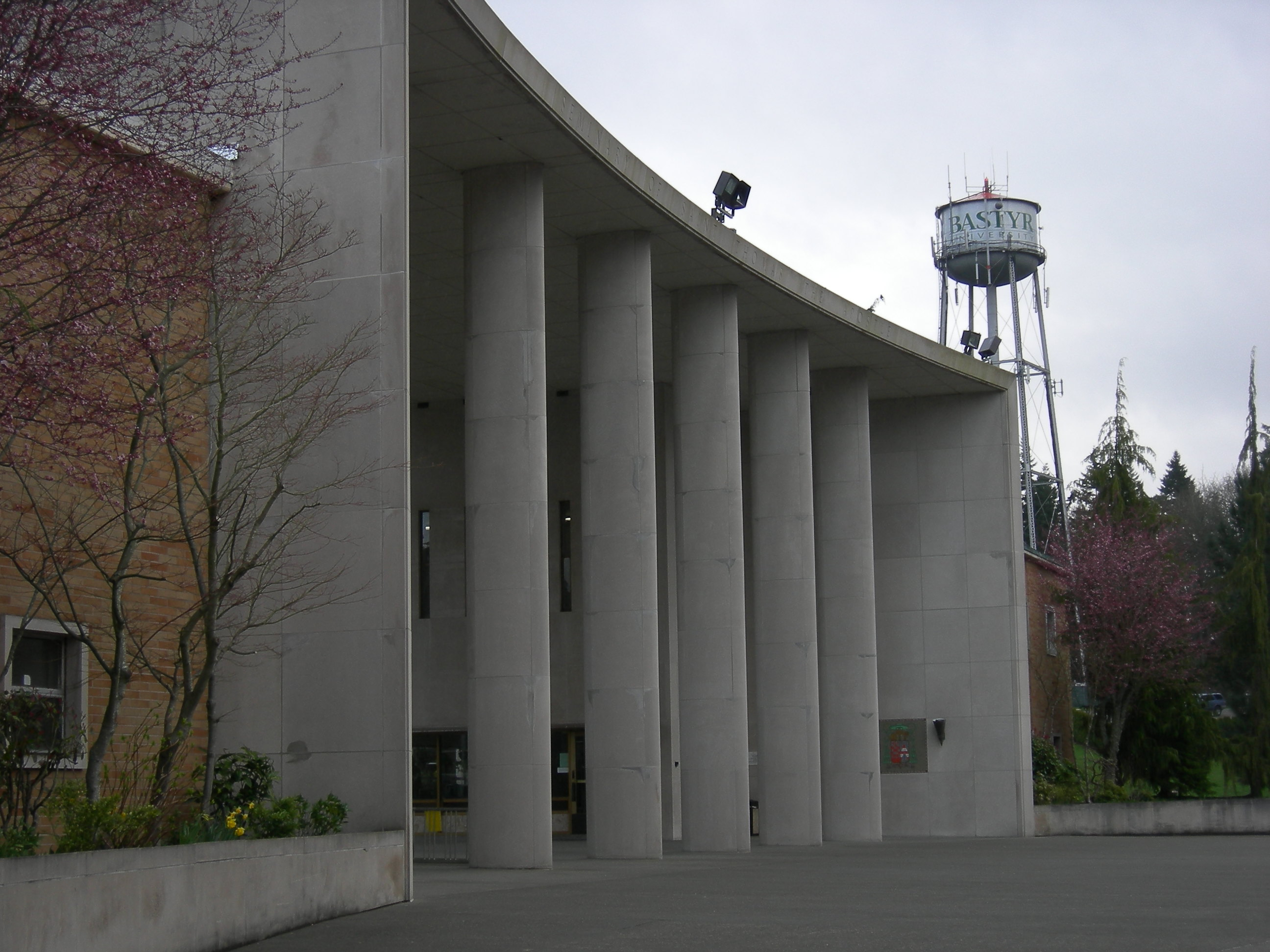 Bastyr University. The building is the former St. Thomas Seminary (Roman Catholic, constructed 1957) and has served as Bastyr's main campus since 1996.